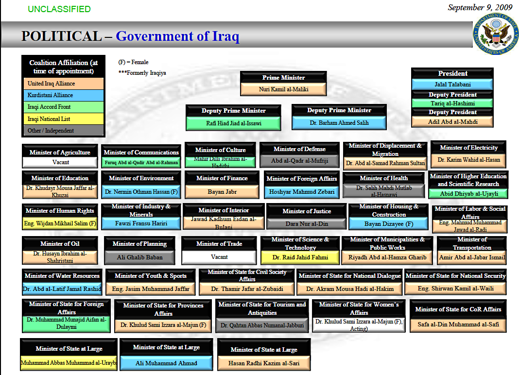 Organization and composition of the Iraqi Federal Government, as of September 2009. Extracted from the weekly Iraq Status Report, by the Bureau of Near Easter Affairs, US Department of State.